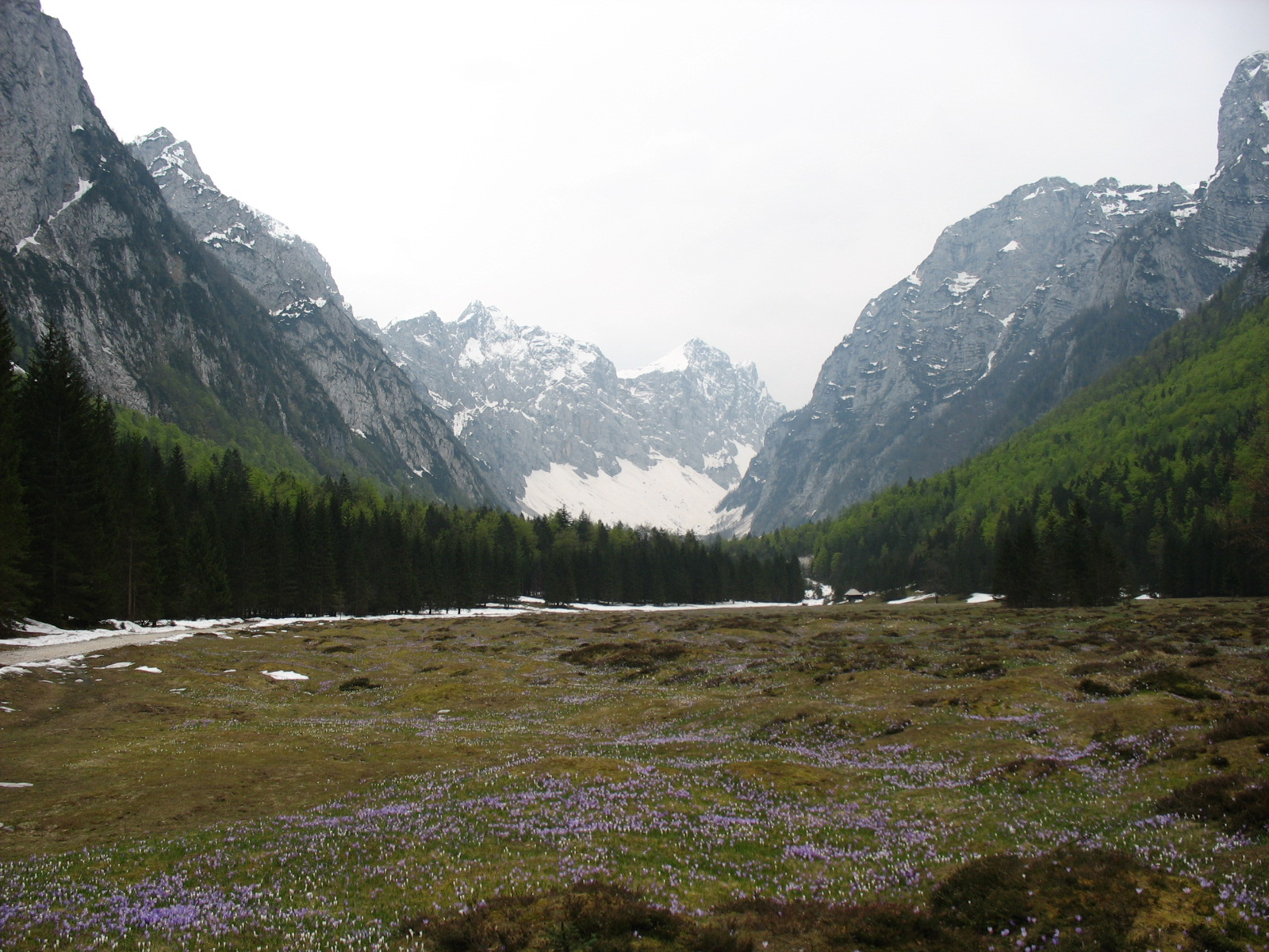 Dolina Krma - a Valley in North of Slovenia (Julian Alps - Julijske alpe region).